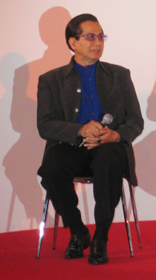 Thai actor Sombat Metanee at the 2nd World Film Festival of Bangkok in 2004. The festival was screening a restored print of the 1971 musical comedy, Ai Tui, which Sombat starred in.